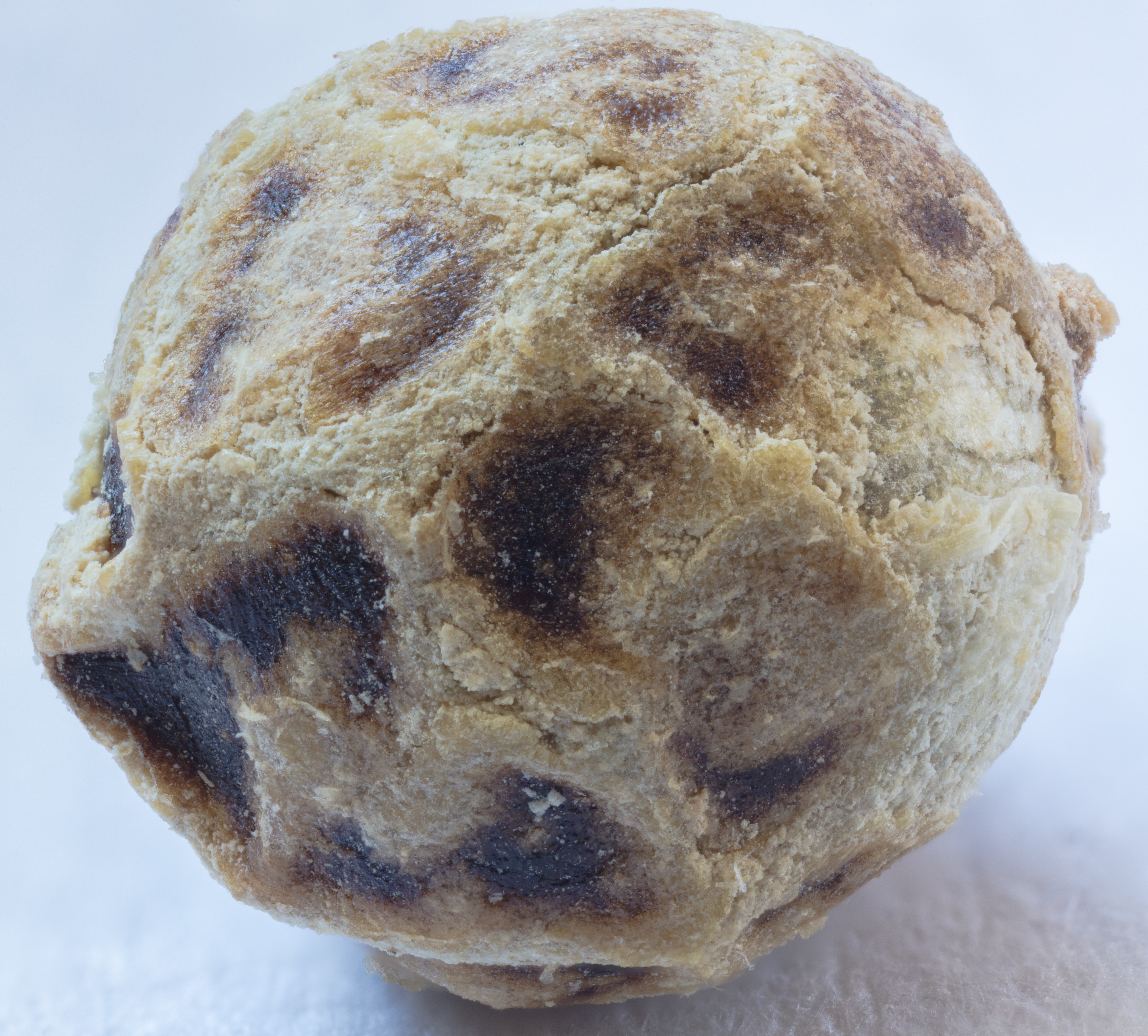 White pepper (Piper nigrum)